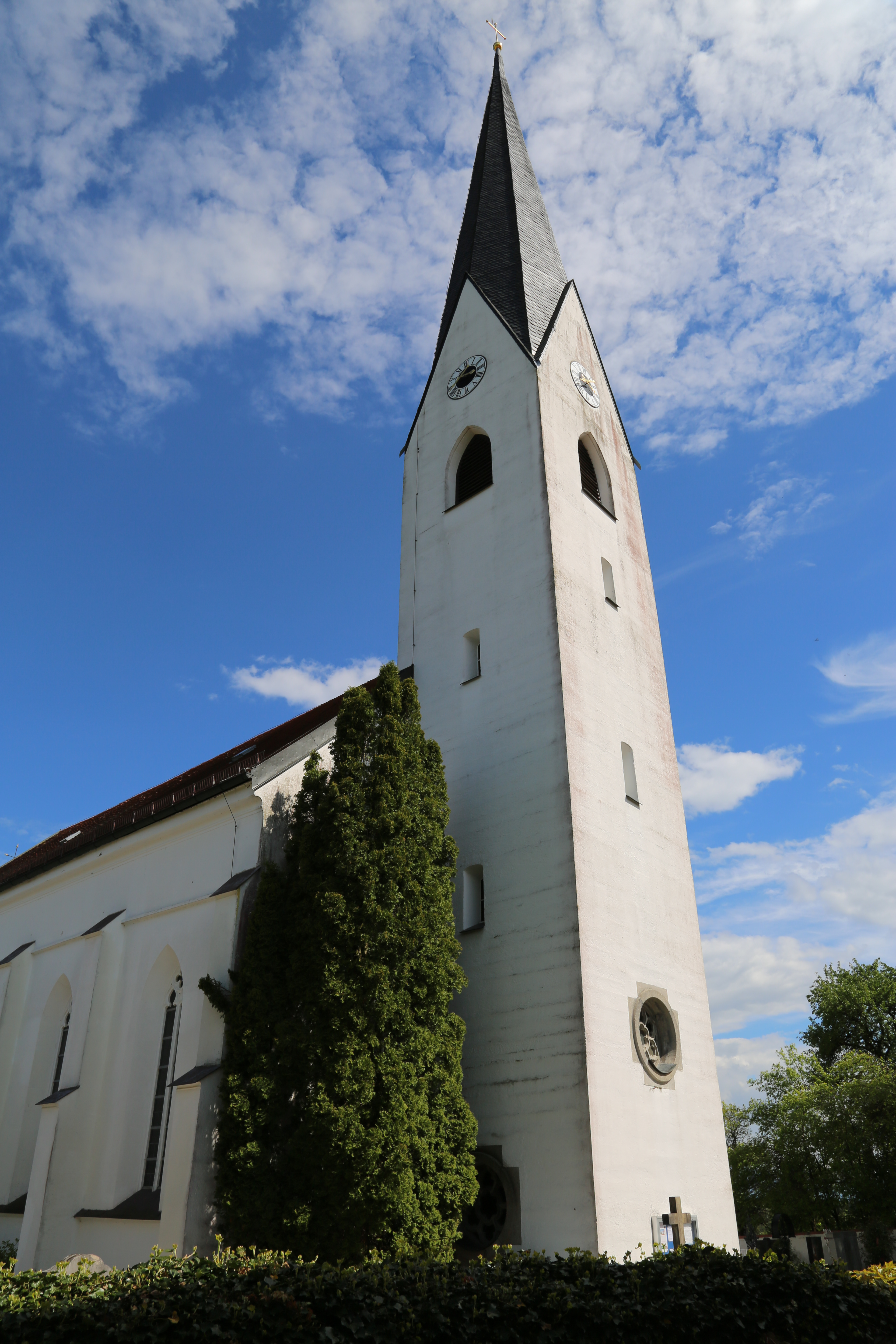 Kuratiekirche St. Rupertus und Laurentius in Stephanskirchen (Bad Endorf)